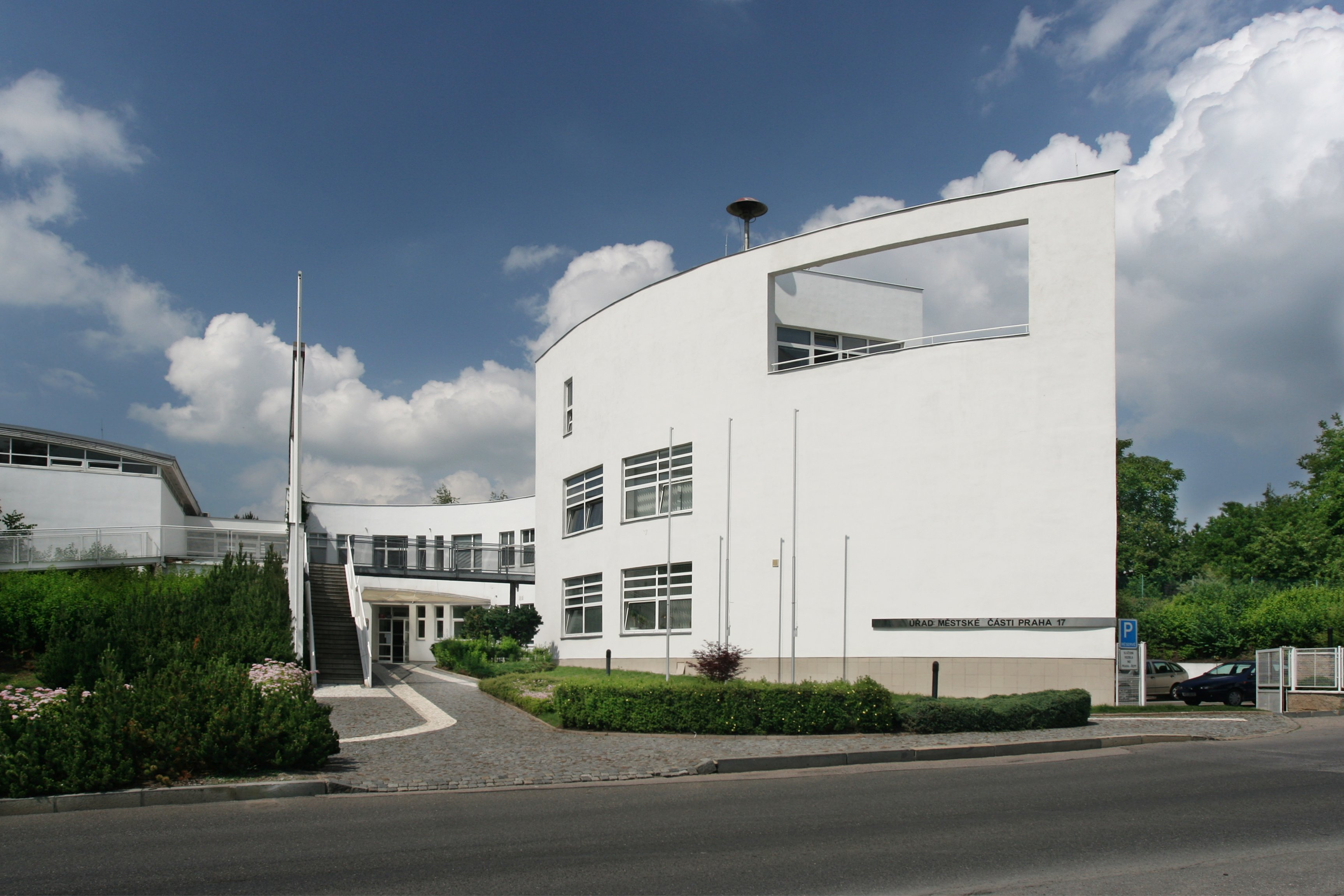 Praha 17 / Řepy town hall